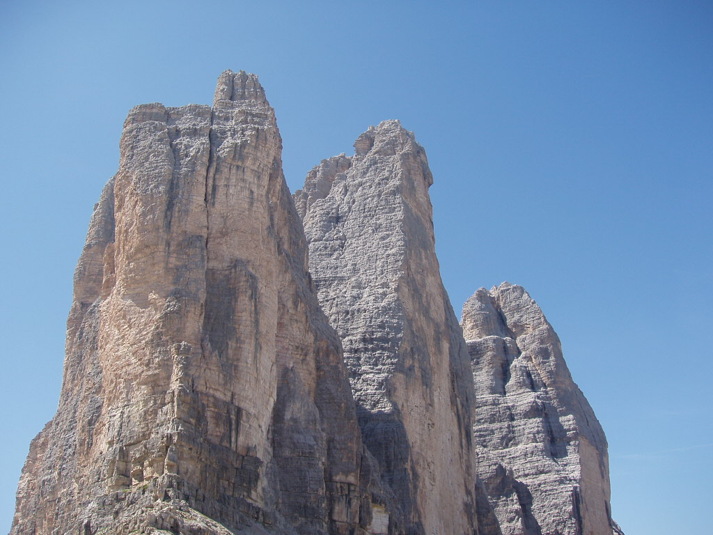 The Tre Cime di Lavaredo from the northeast, showing the north faces of the peaks